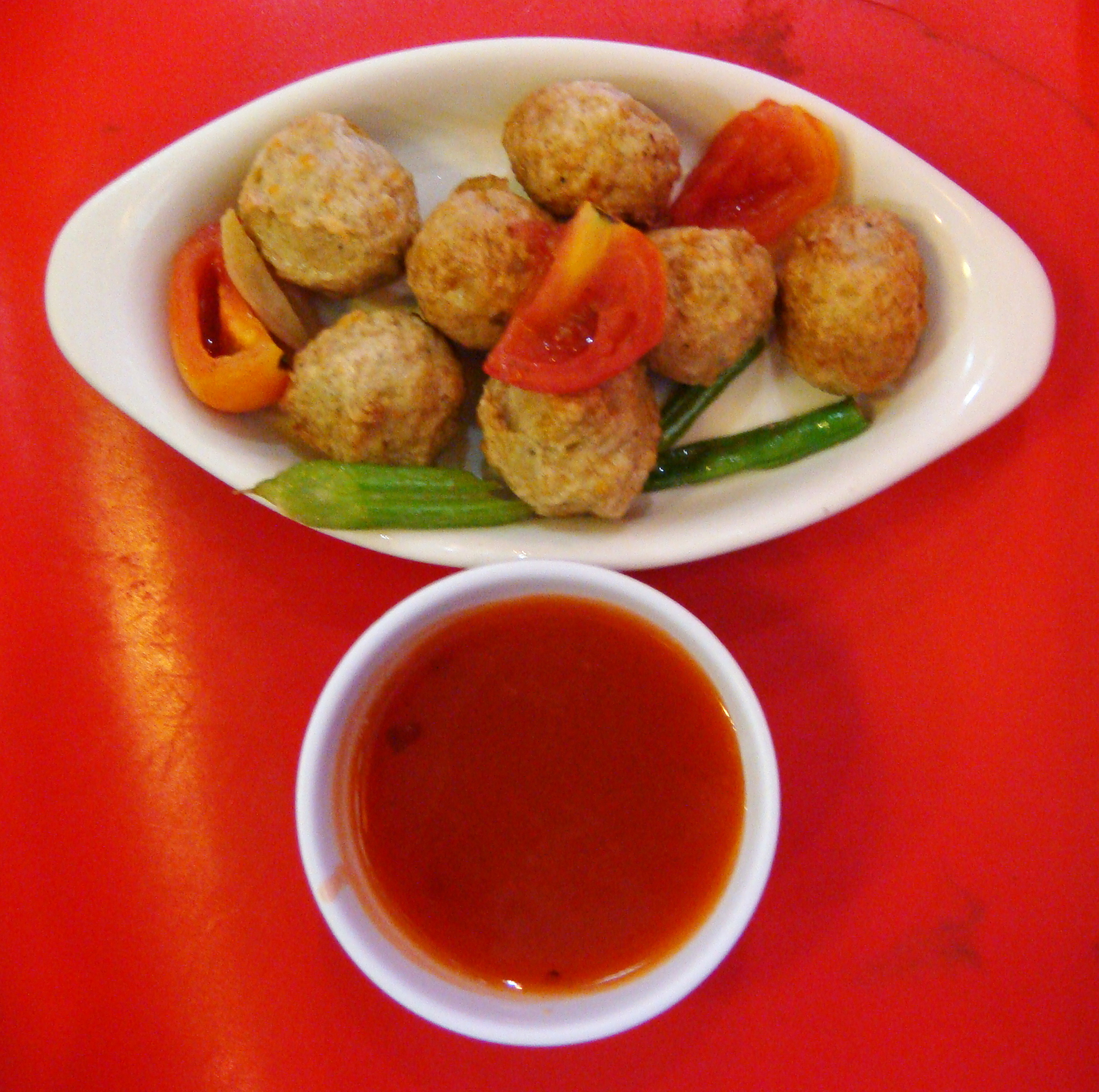 Bidbid meat balls